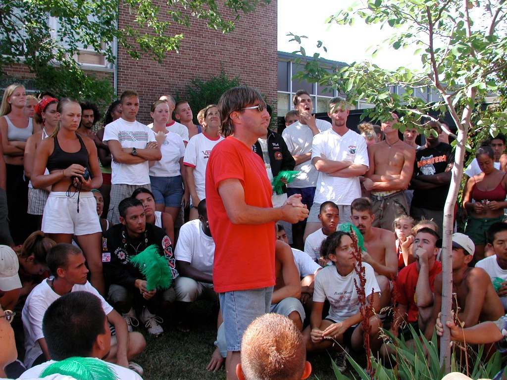 Then drill writer and mentor, Myron Rosander addressing the membership of the 2001 Santa Clara Vanguard. Age-out members are shown holding their green feathers.